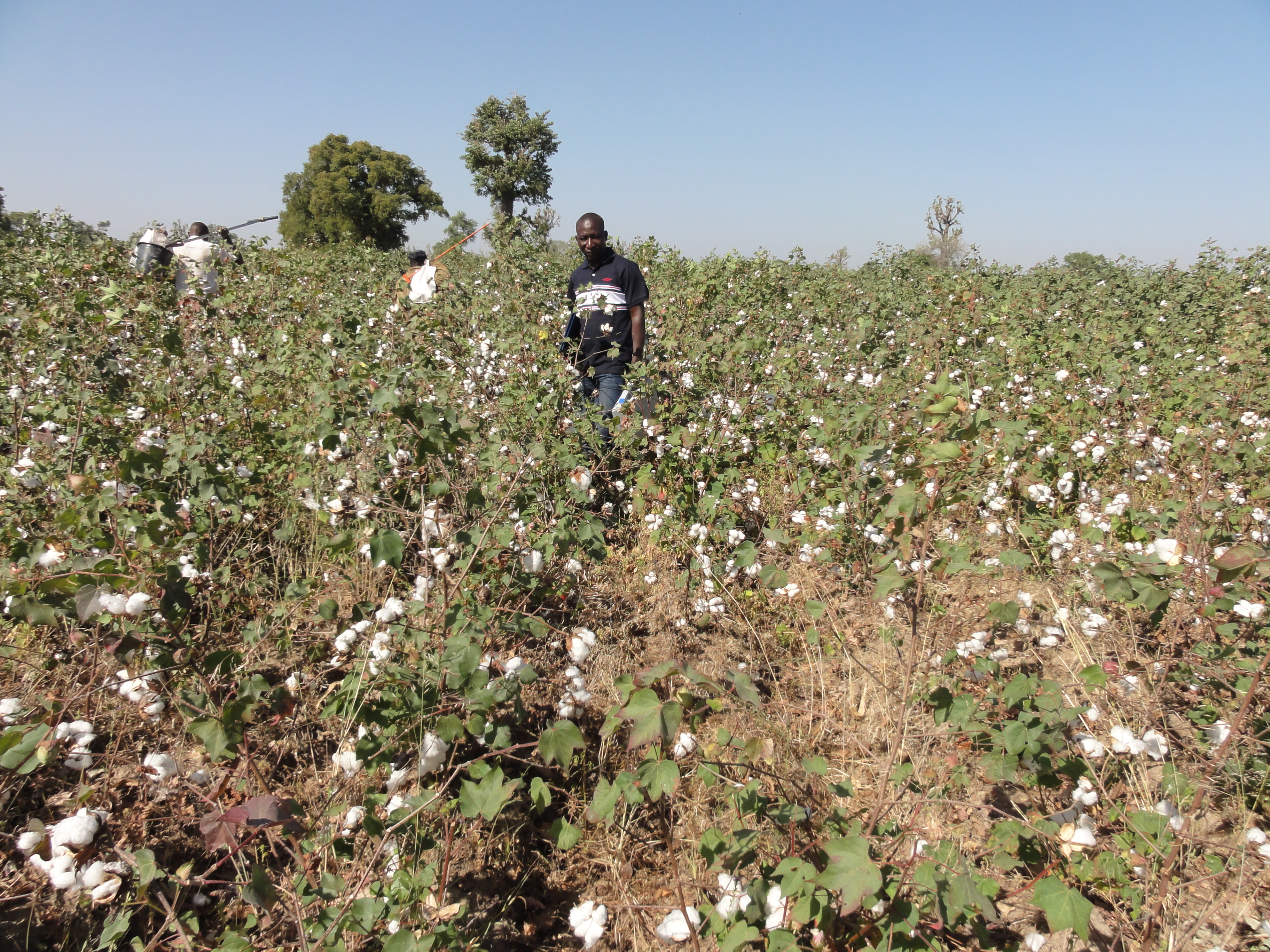 Rice cultivation in Benin